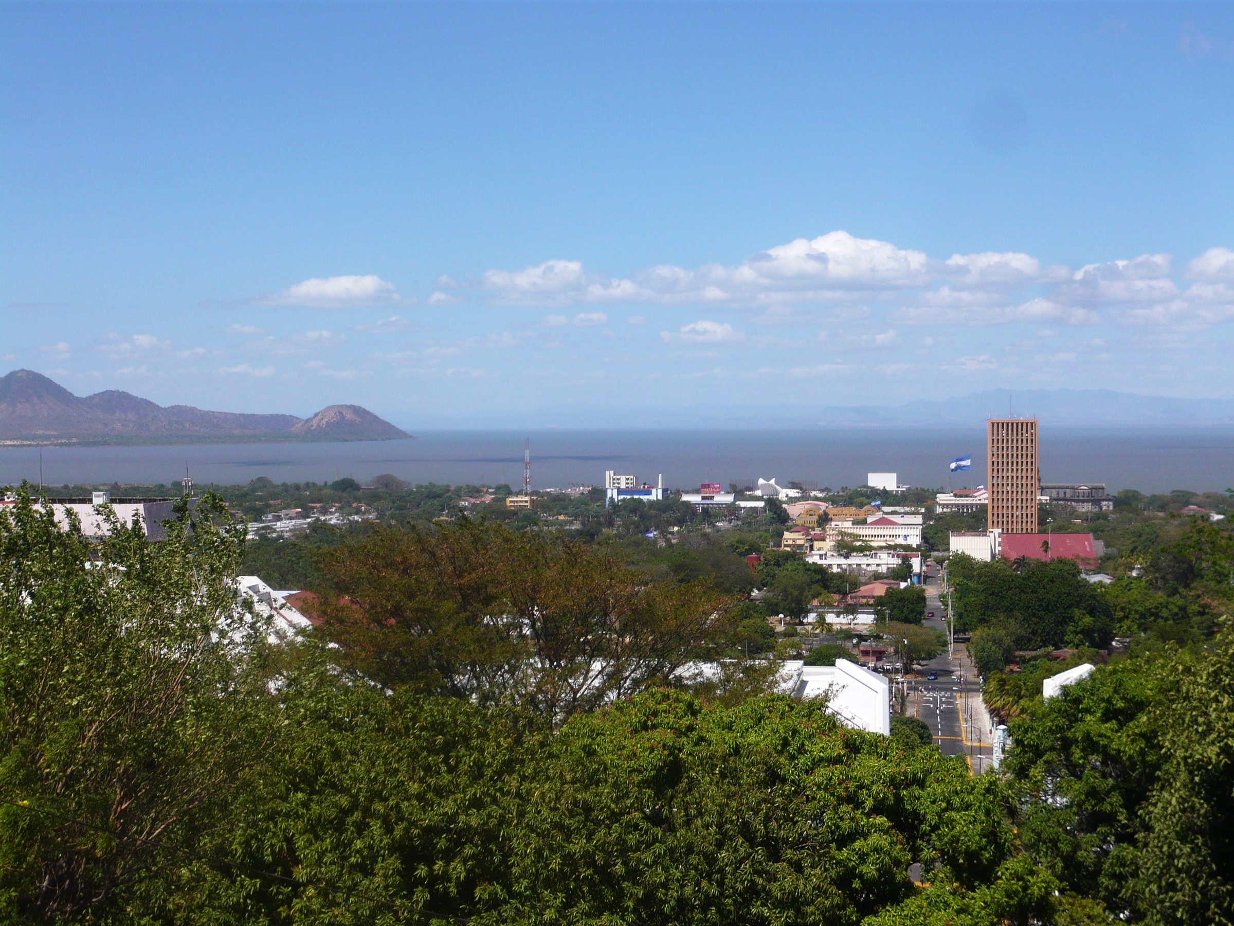 Managua seen from Loma de Tiscapa